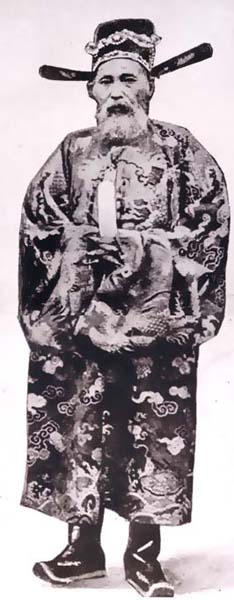 Photo of Cao Xuan Duc (1843–1923), scholar and court official historian of the Nguyen Dynasty.